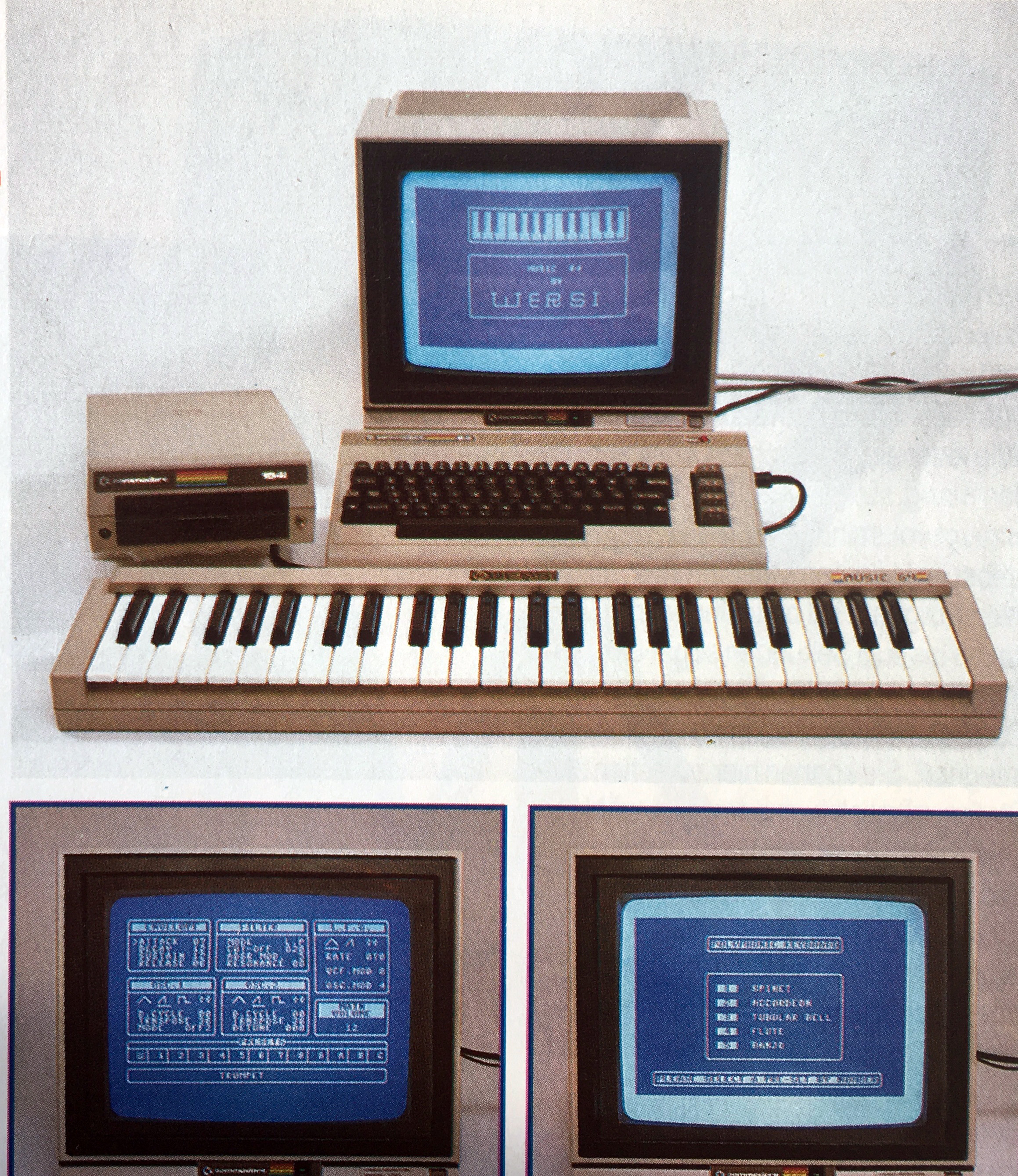 WERSI Computerprogram